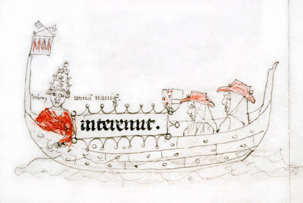 The Pope Urbano V during its travel to Roma (extract from "Miscellanea historica")